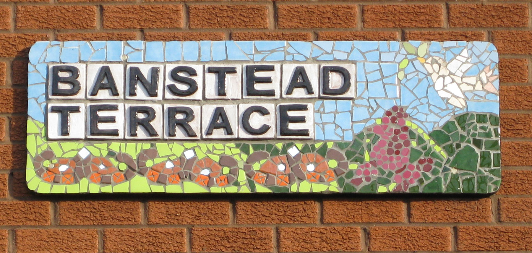 Street Sign for Banstead Terrace, Harehills, Leeds, UK